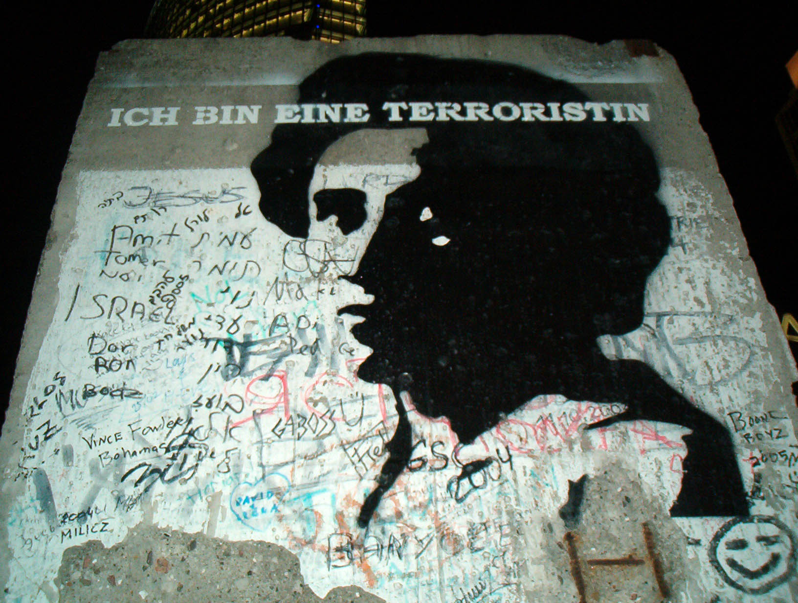 image of Rosa Luxemburg on a portion of the Berlin Wall in Potsdamer Platz in Berlin